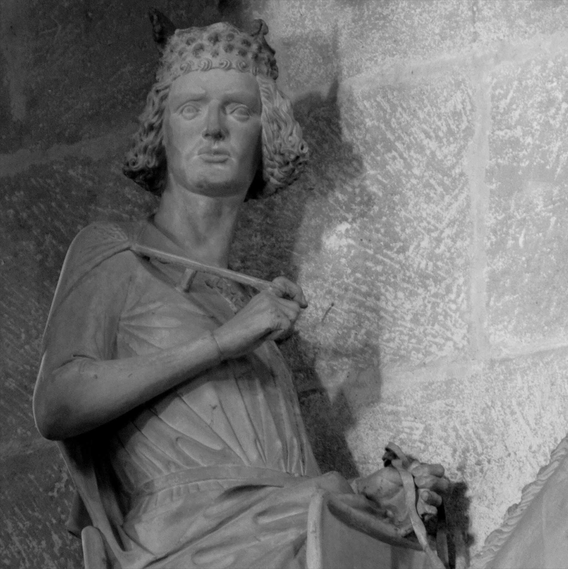 sights of Bamberg, Germany